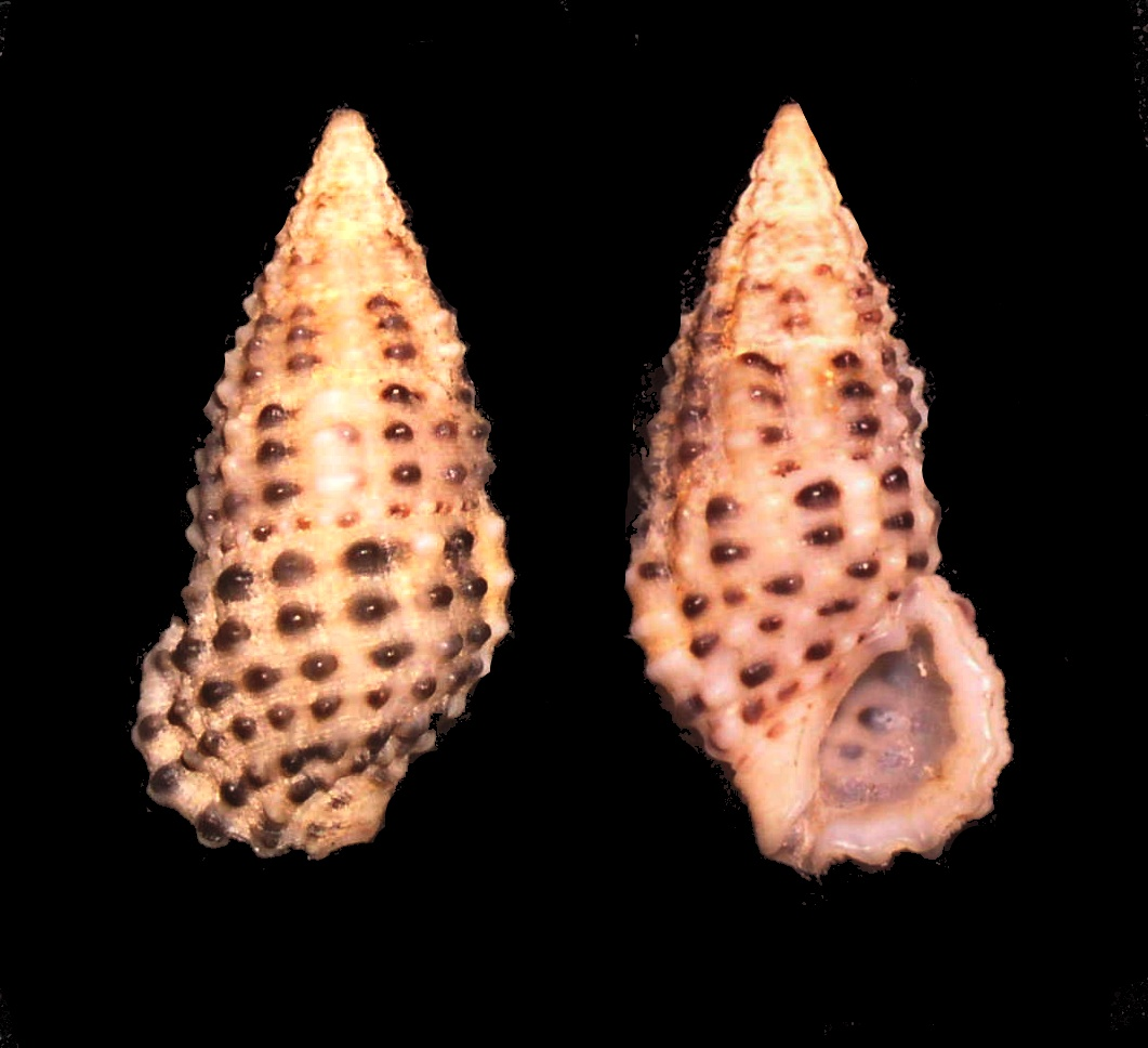 Clypeomorus bifasciata, synonym: Clypeomorus concisus.